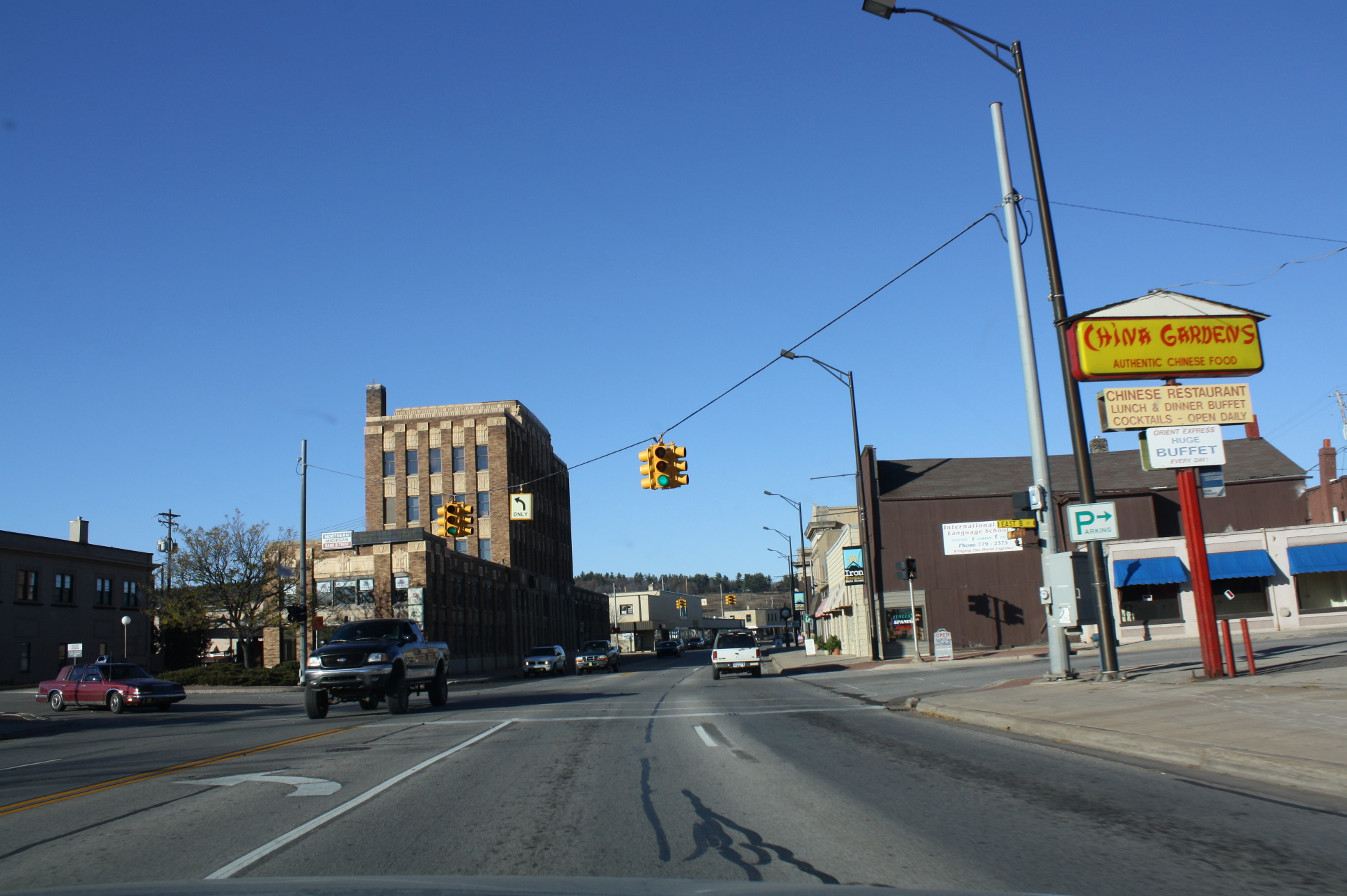 Downtown Iron Mountain, Michigan on US Highway 2 / US Highway 141.